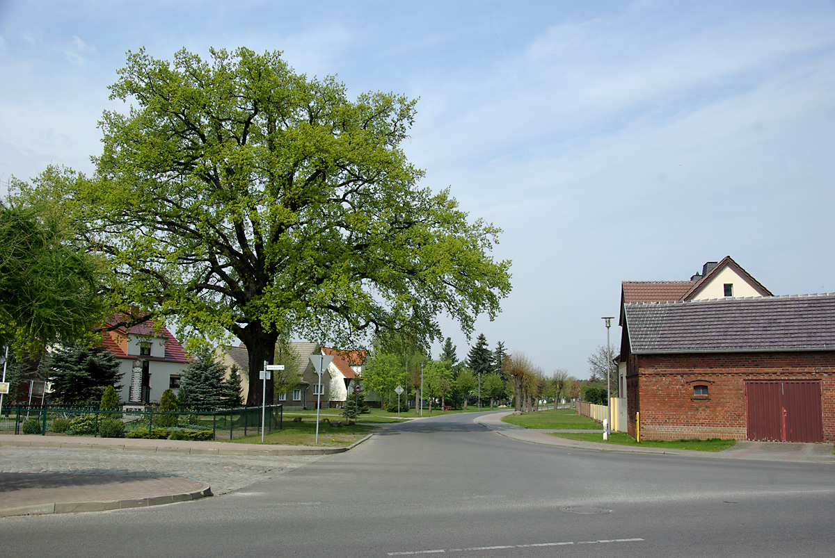 Village of Guhrow near the Spreewald, Brandenburg, Germany